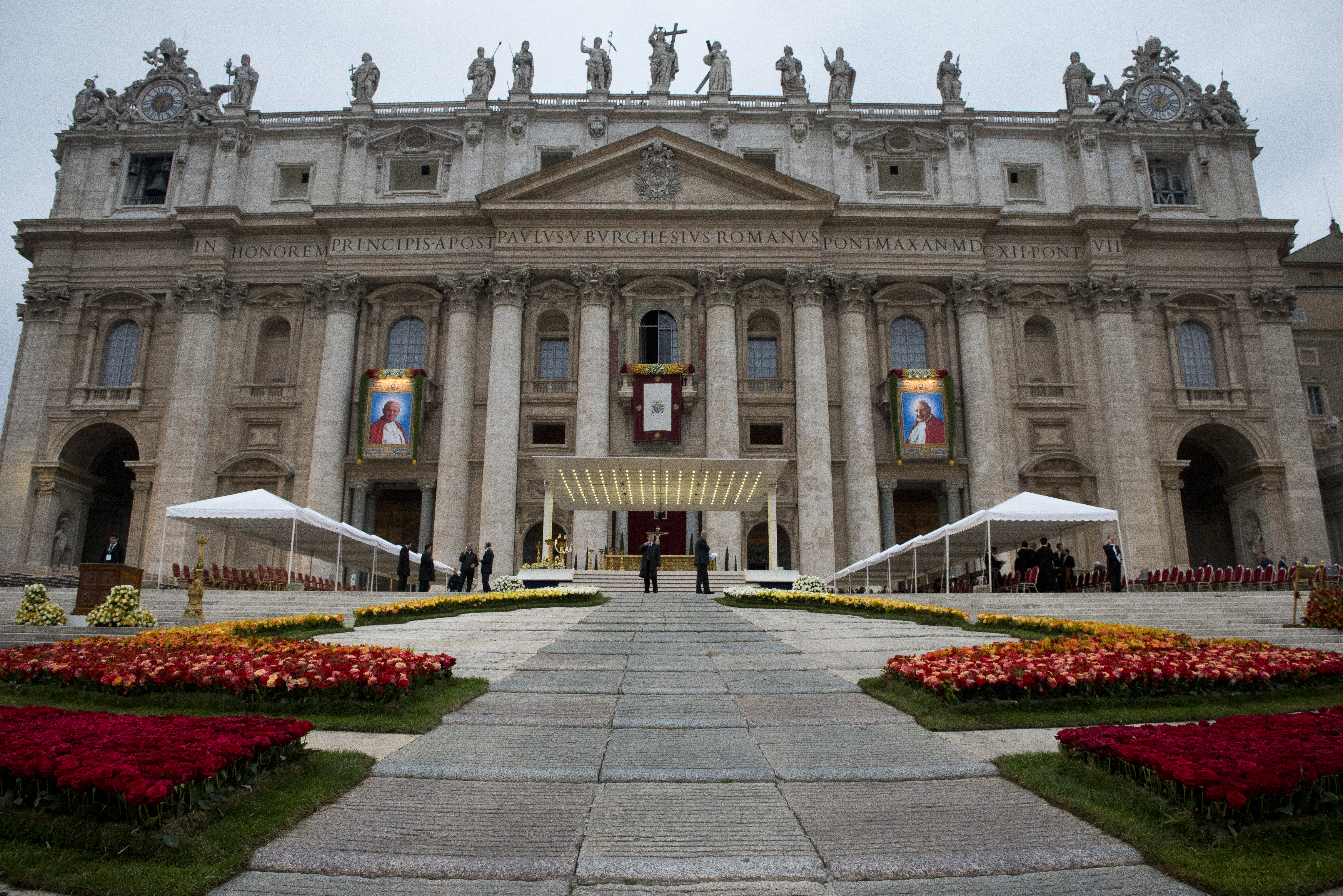 ROME,VATICAN 27 APRIL: Images taken from what will go down in history as one of the largest and most important days in current history. The Canonization of Blessed Pope John XXIII and Blessed Pope John Paul II. Two beloved Popes from the 20th Century.